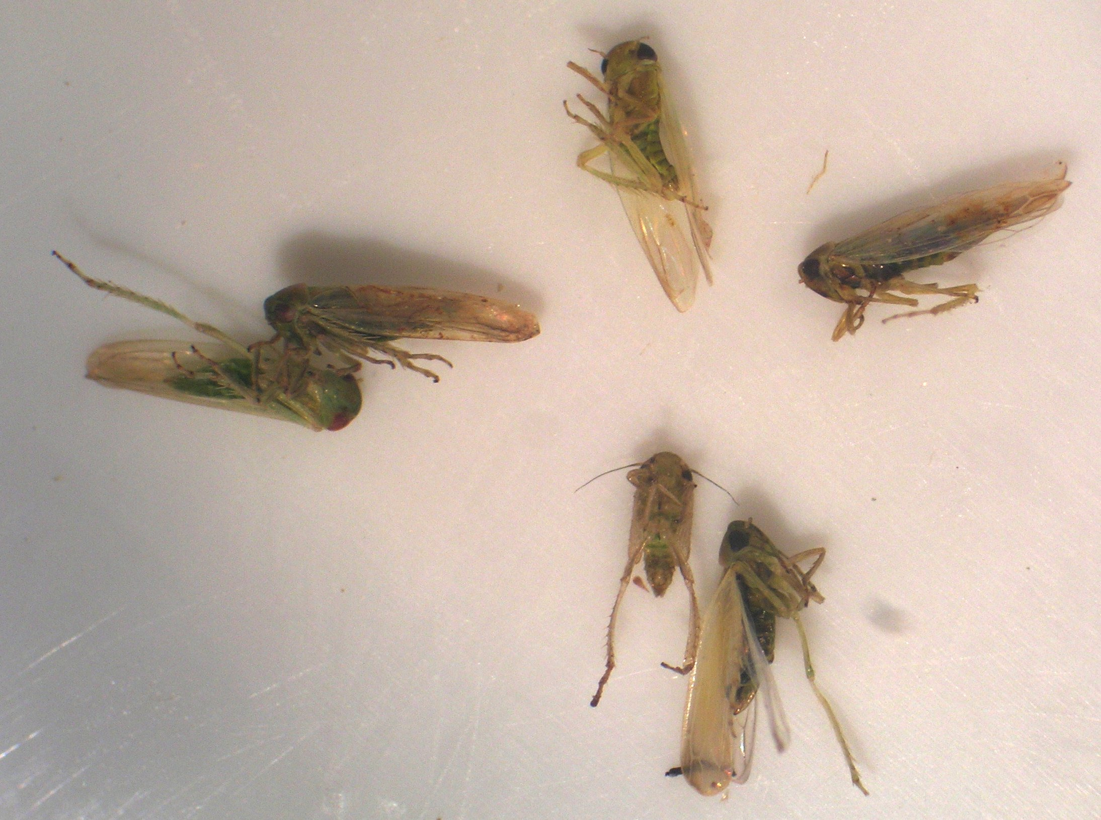 Balclutha incisa